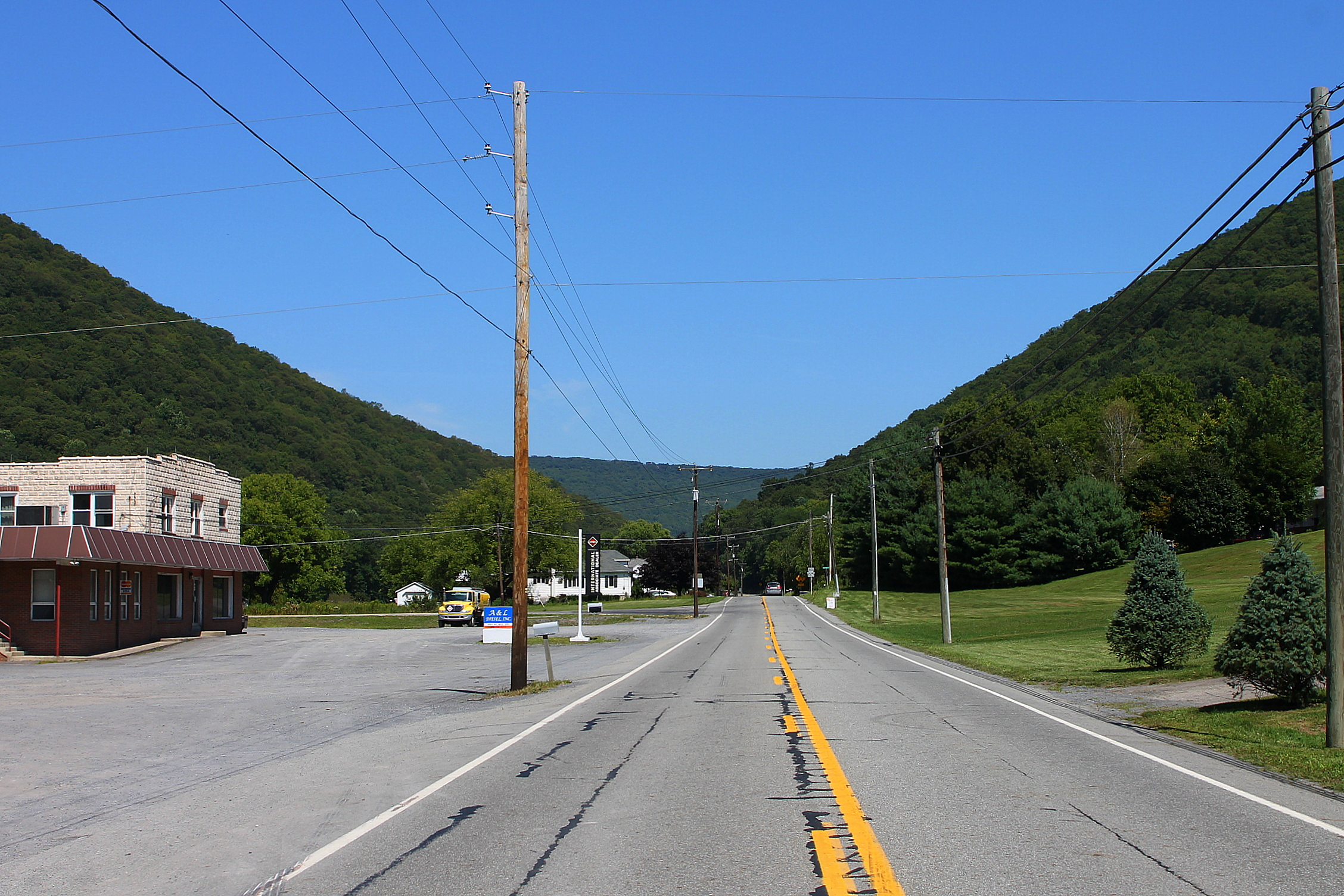 Dornsife Gap and Pennsylvania Route 225 from the south